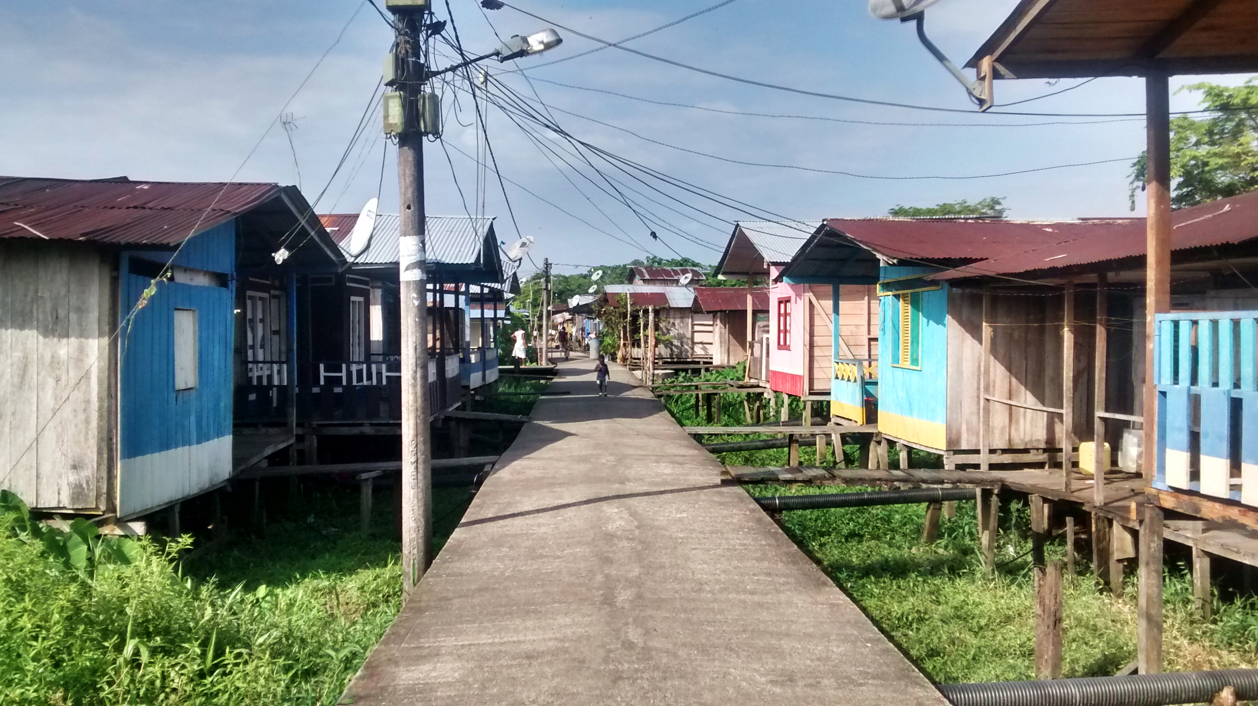 Vigía del Fuerte, 5th street